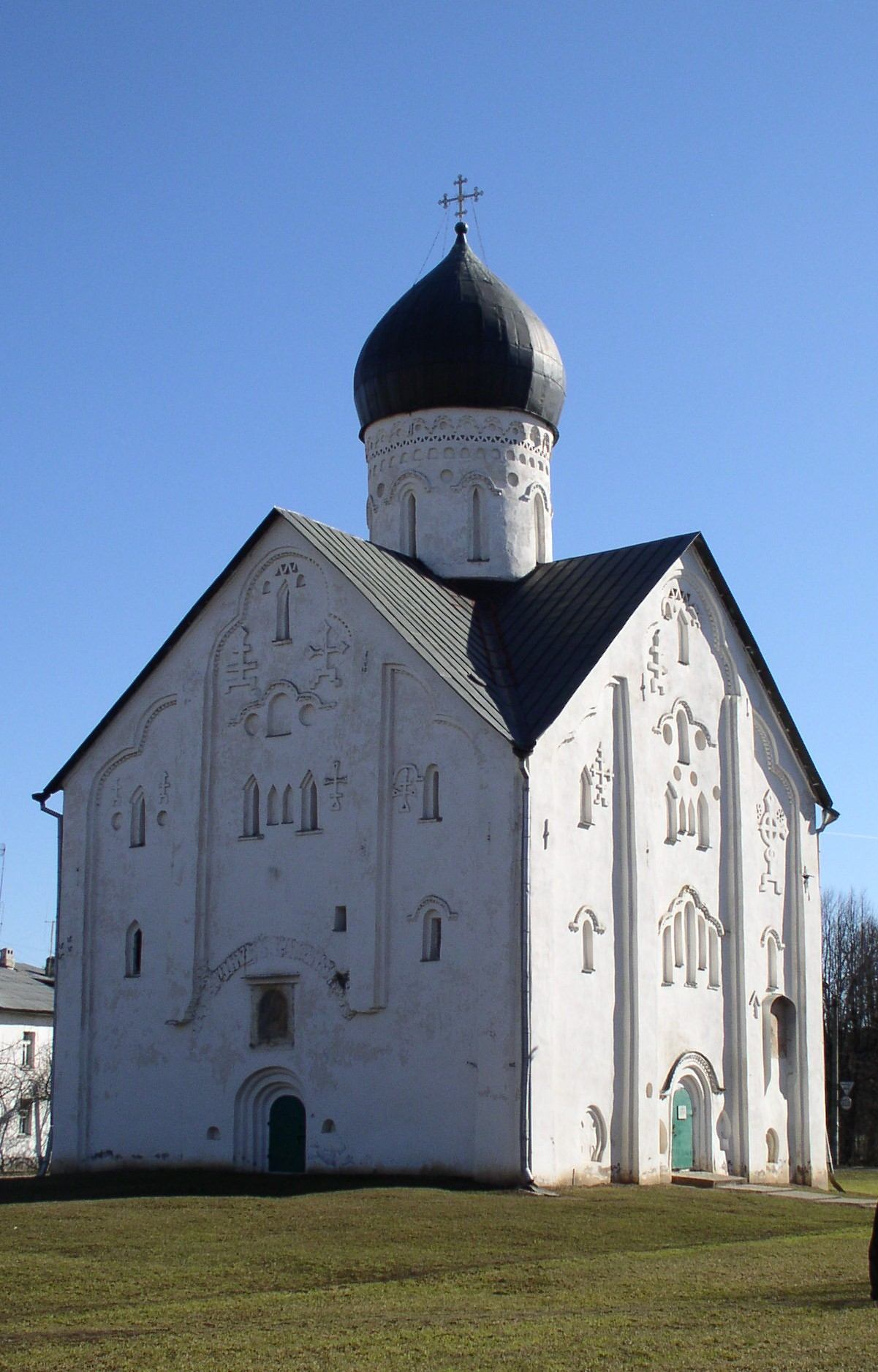 Transfiguration of the Christ church in the Ilyina street (1374), Velikiy Novgorod, Russia. Inside there are numerous frescoes by Theophanes the Greek